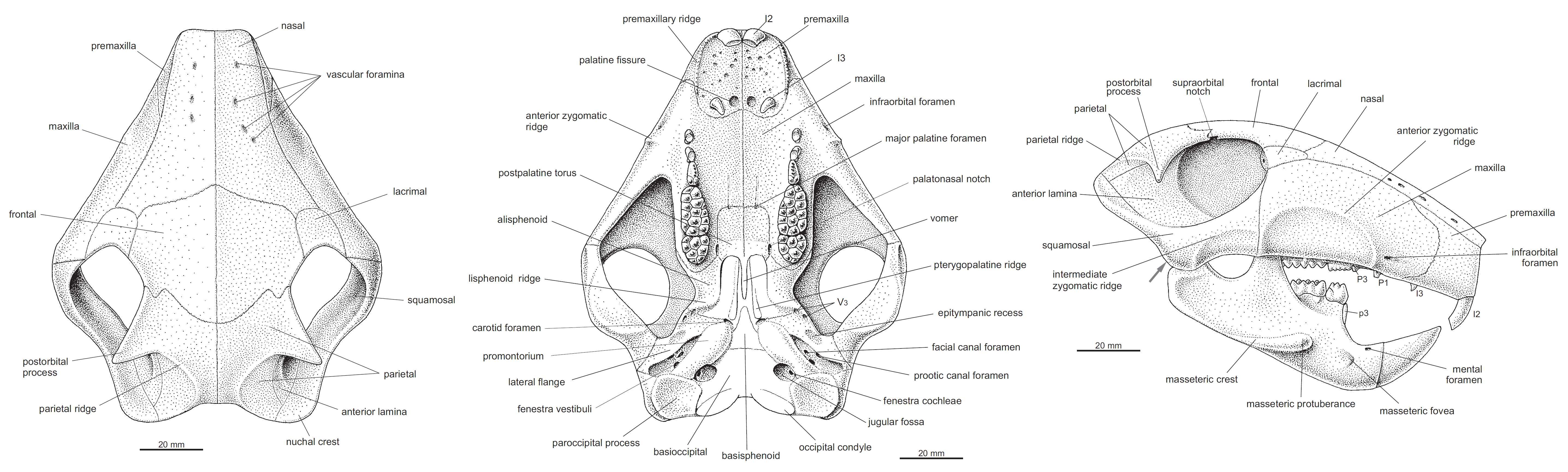 Left (originally fig. 6.): Catopsbaatar catopsaloides, reconstruction of the skull, based on all available specimens, in dorsal view. The nasal vascular foramina are shown as preserved in PM 120/107. In other specimens there may be only two pairs of nasal vascular foramina. Middle (originally fig. 8.): Catopsbaatar catopsaloides, reconstruction of the skull, based on all available specimens, in ventral view. The reconstruction is of an adult individual, but the upper premolars P1 and P3, which disappear during ontogeny, have been reconstructed. The teeth in maxilla are P1, P3, P4, M1, and M2. The choanal region and the middle part of the basicranial region (diagrammatical), including recognition of most of the foramina not preserved or poorly preserved in Catopsbaatar (see text for details), have been reconstructed on the basis of other djadochtatherioid genera, especially Kamptobaatar (Kielan−Jaworowska 1971), Nemegtbaatar (Kielan−Jaworowska et al. 1976), and Kryptobaatar (Wible and Rougier 2000). Right (originally fig. 7.): Catopsbaatar catopsaloides, reconstruction of the skull, based on all available specimens, in lateral view. The reconstruction is of an adult individual, but the upper premolars P1 and P3, which disappear during ontogeny, are reconstructed. The bones of the orbit, not preserved in ZPAL and PM specimens and very fragmentarily preserved only in PIN 4537/4 and /5, have not been reconstructed. The dorsal part of the maxilla/squamosal suture is tentatively reconstructed on the basis of PIN 4537/5 (Fig. 3C, D) and a comparison with Djadochtatherium (Fig. 11B). The arrow points to the posterior zygomatic “ridge” (muscle scar), preserved on the squamosal above the glenoid fossa and discernible in occipital view. The teeth not marked on the dentary are p4 and m1, on maxilla P4 and M1.